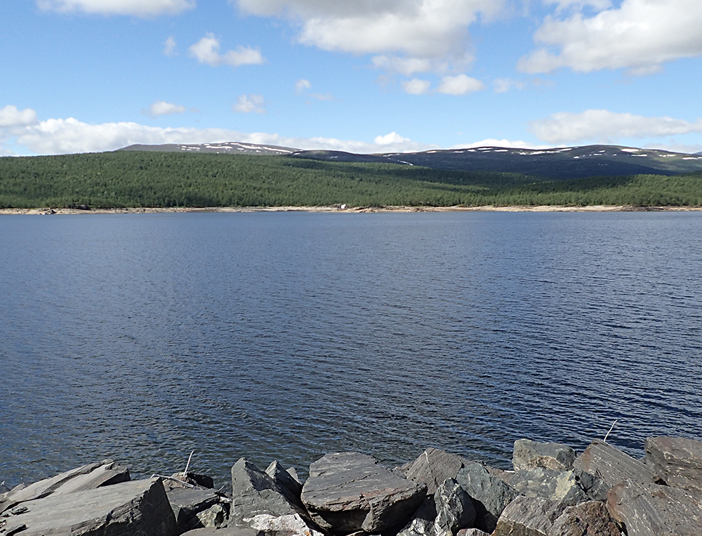 Sädvajaure, Arjeplog Municipality, Sweden. In the middle of the picture is the outlet of the small river Silbbajåhkå, where Nasafjäll's silverworks were located in the 17th century.